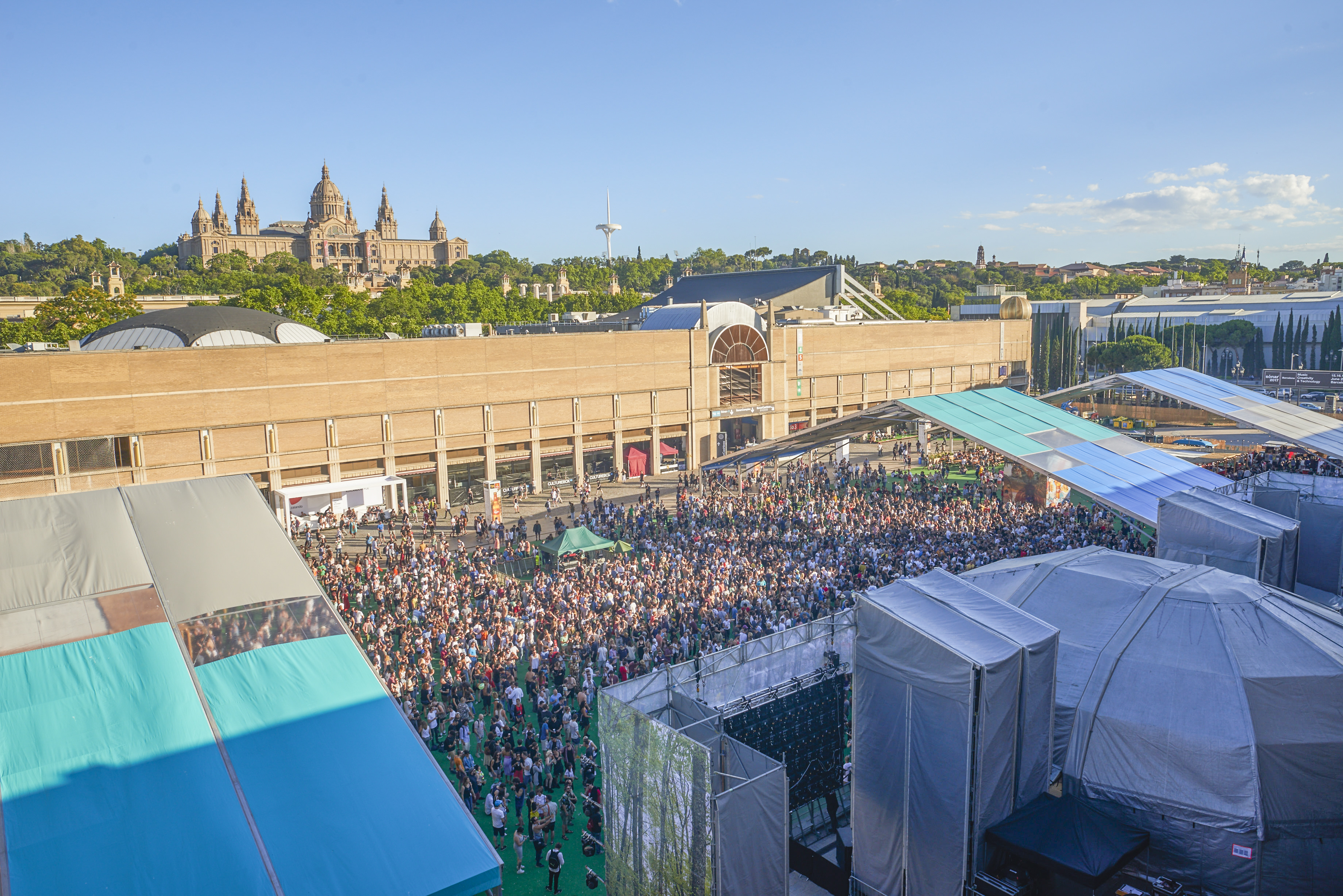 Photo of SonarVillage stage shoot by Javier Tles